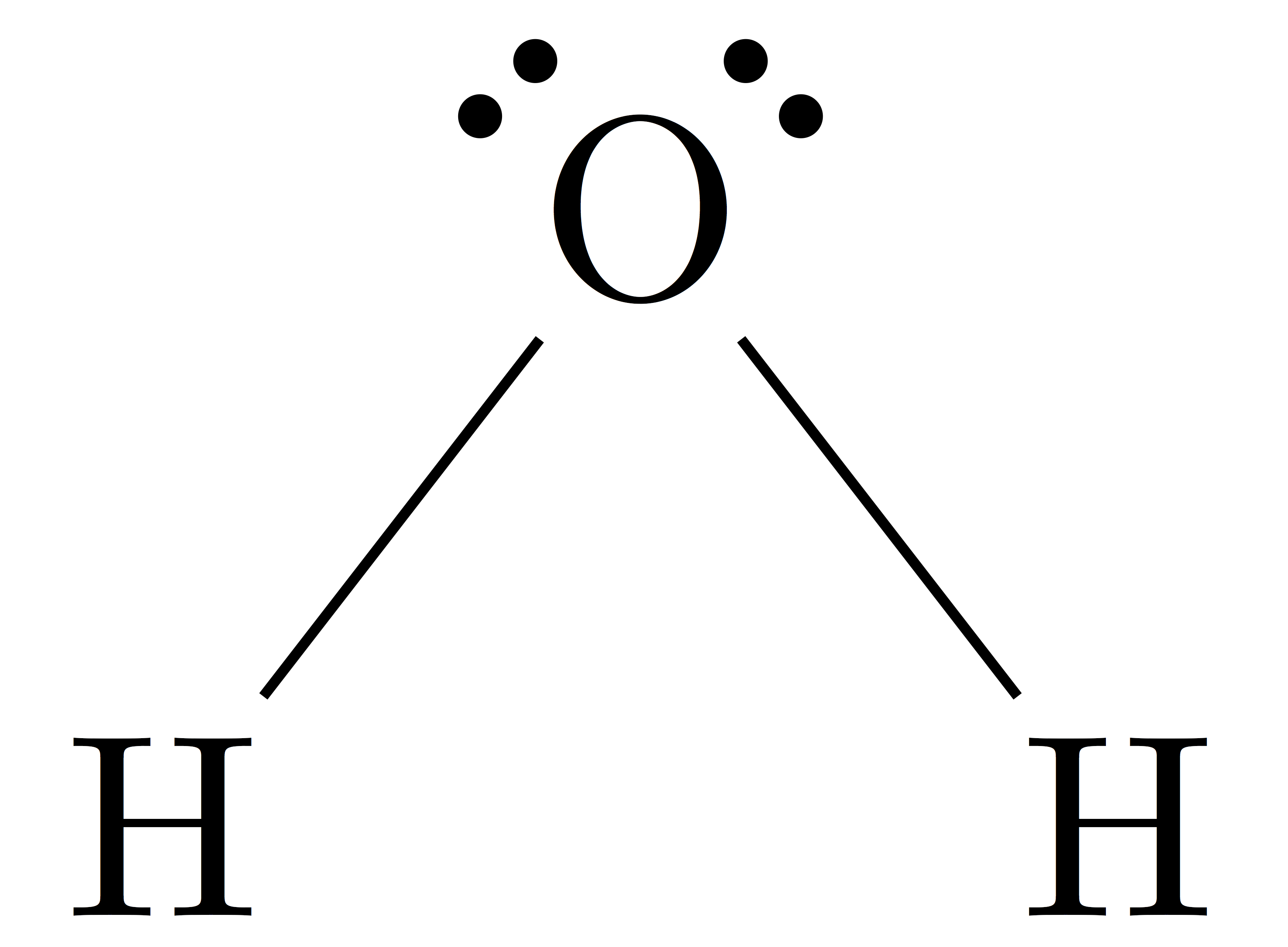 H2O Lewis Structure